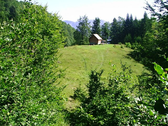 Prokletije Mountains in Albania and Montenegro